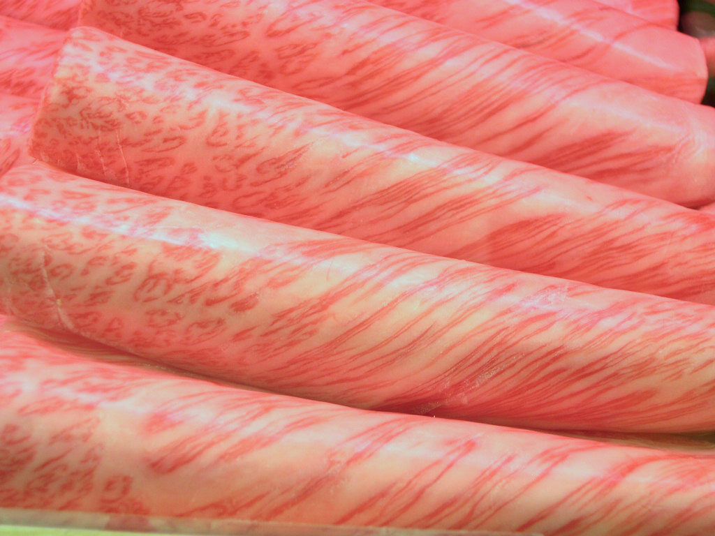 Detail of fat marbling in slices of Wagyu beef sold in a Mitsukoshi food hall, Tokyo, Japan.